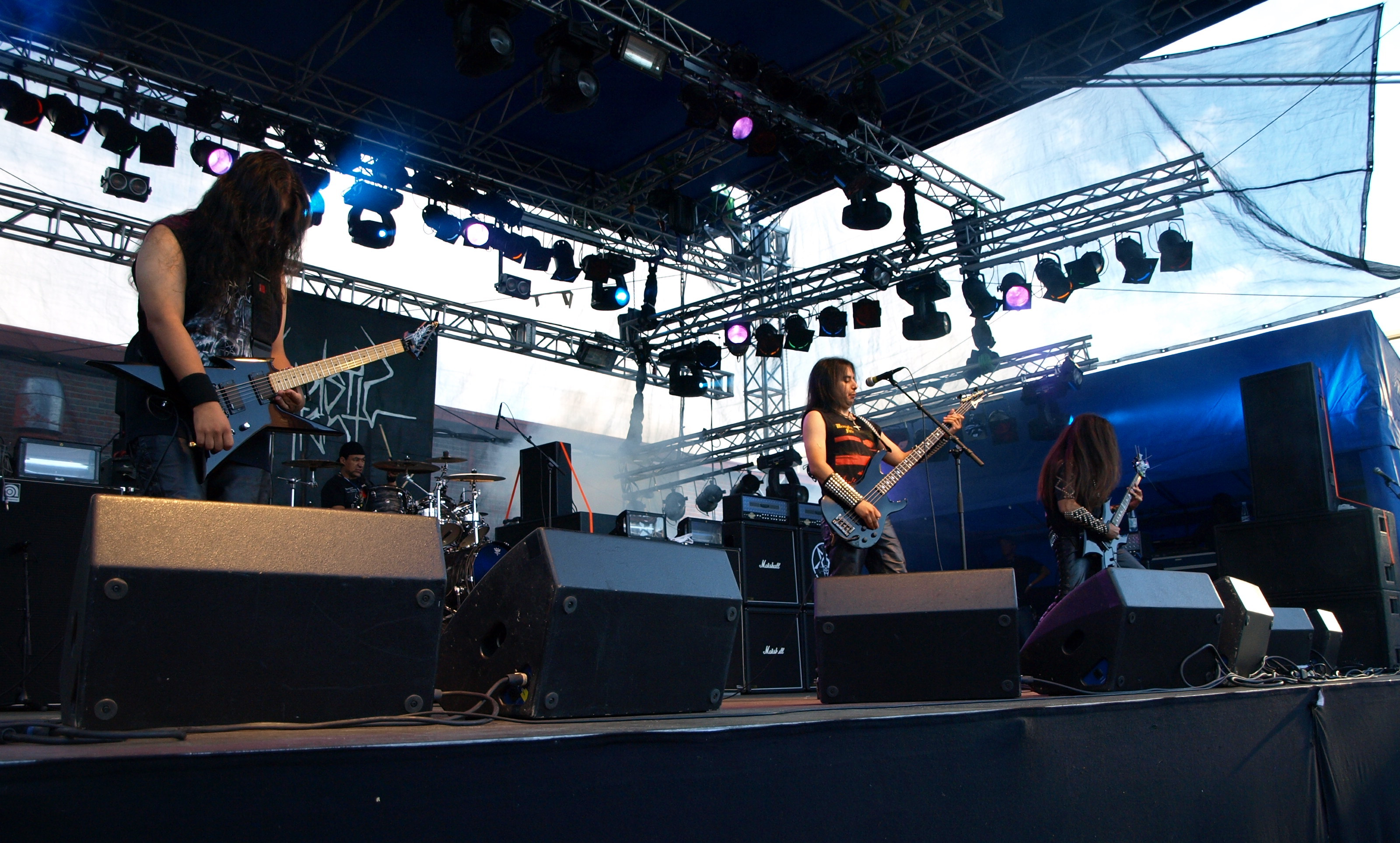 American death/thrash metal band Sadistic Intent live at Jalometalli 2008 in Oulu.